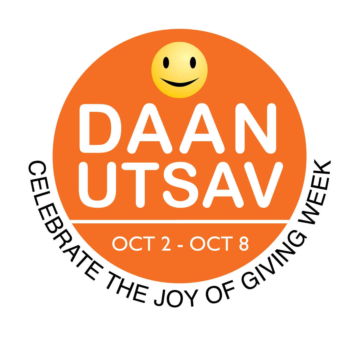 Logo of #DaanUtsav- the Joy of Giving Week. The logo was updated in December 2013 when the name of the festival was changed. The previous name continues to be part of the tagline and the colours and look and feel were preserved.